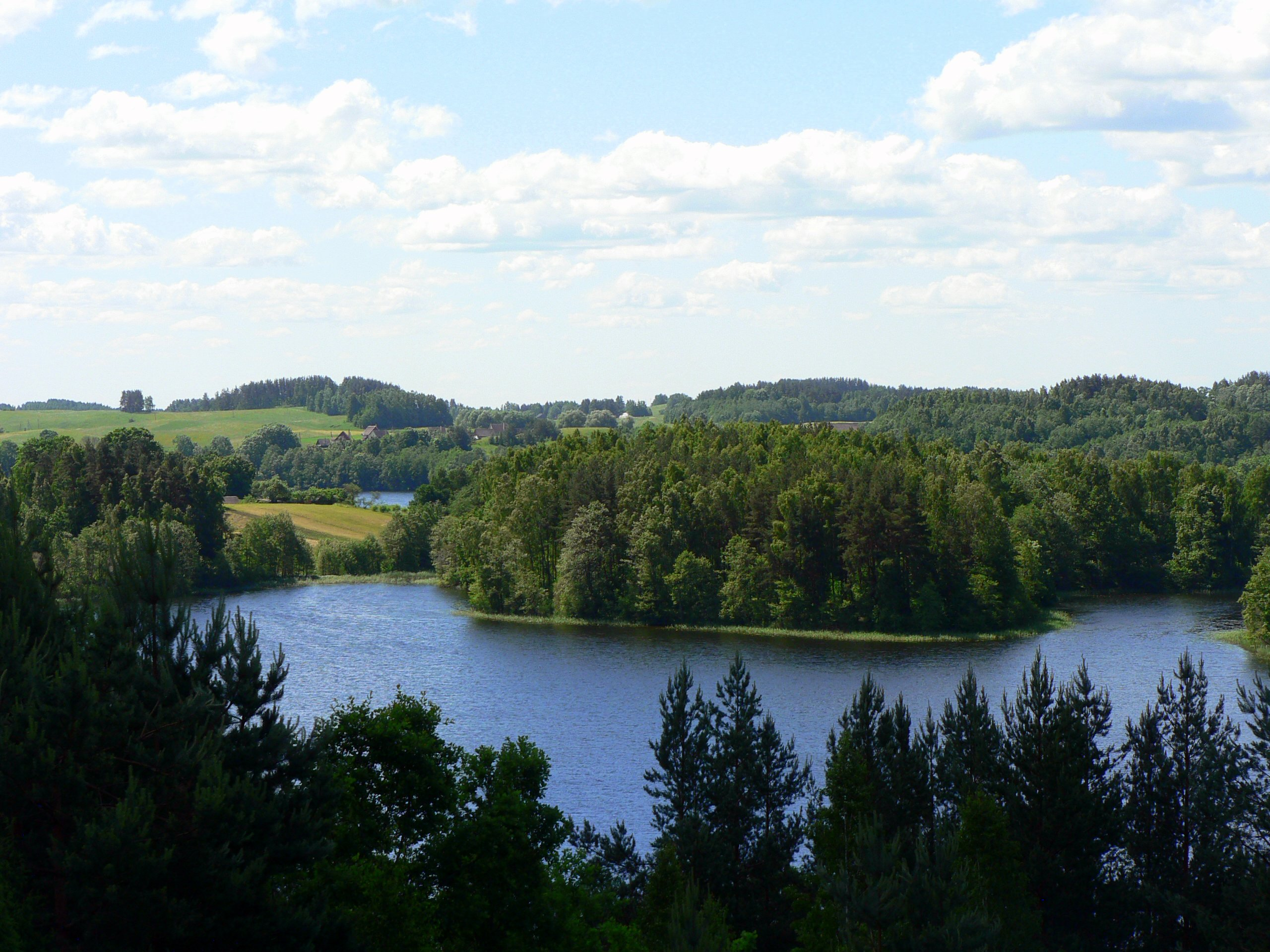 View from Ladakanis hill, Lithuania. Author: Wojsyl, 2005